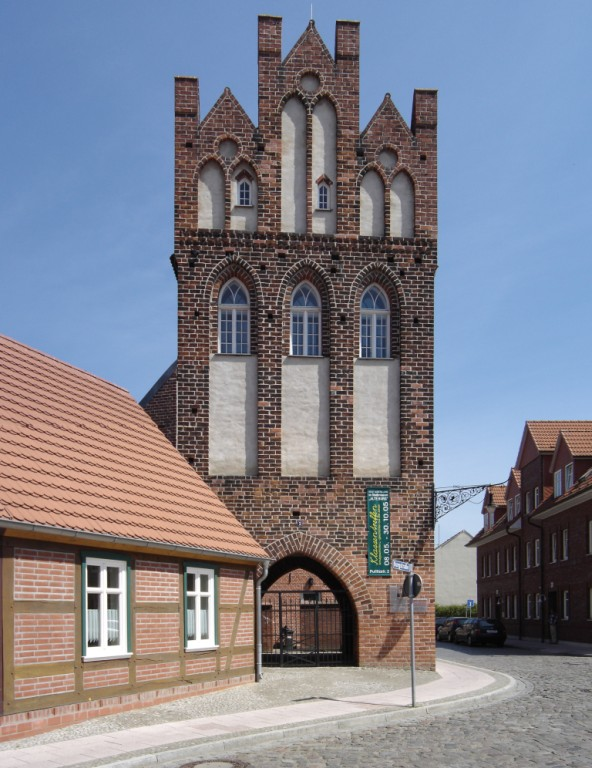 “Front side of the historic town gate (called 'Steintor') in Wittenberge (Germany)”